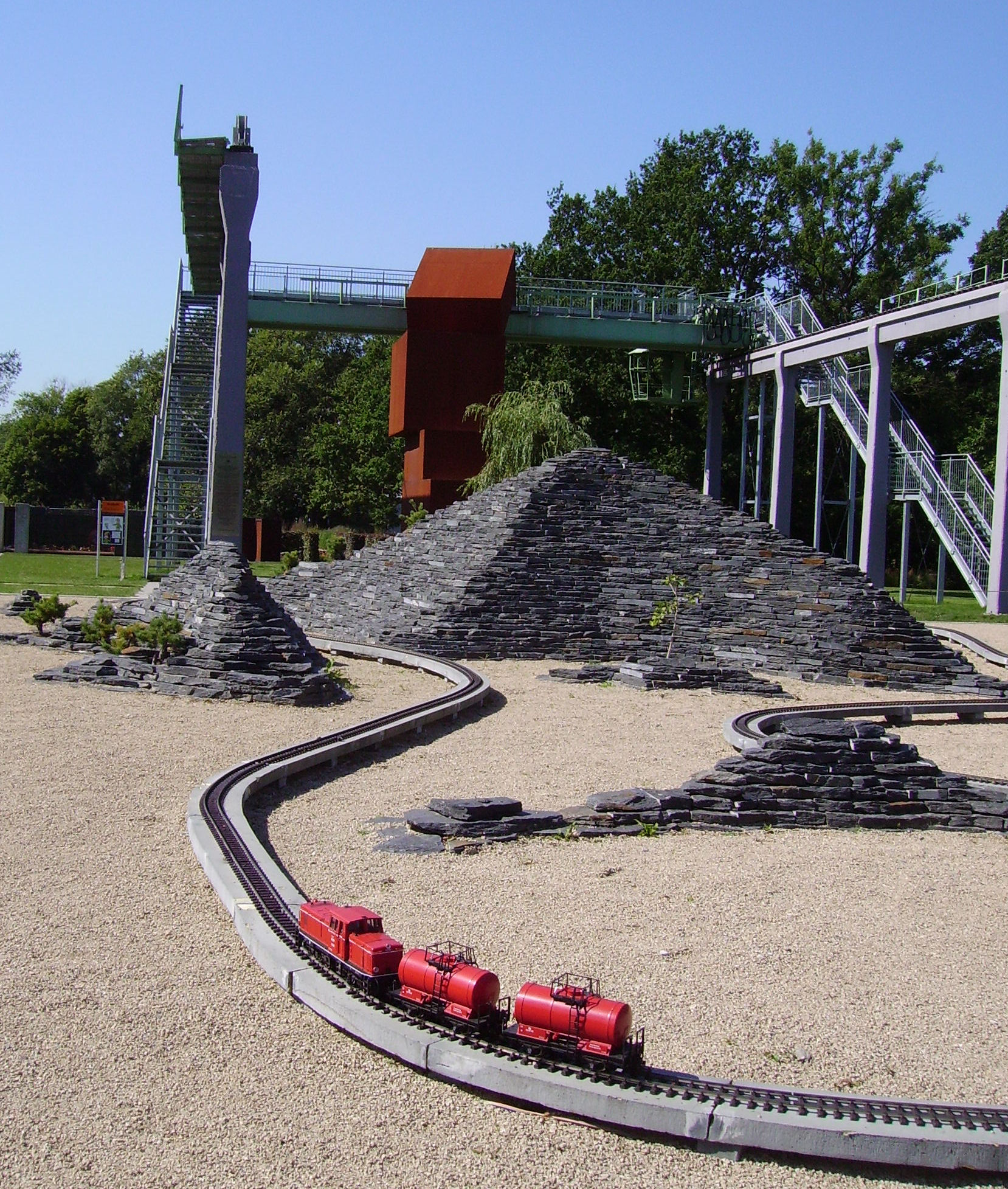 Park of Eberswalde in Brandenburg (Germany)